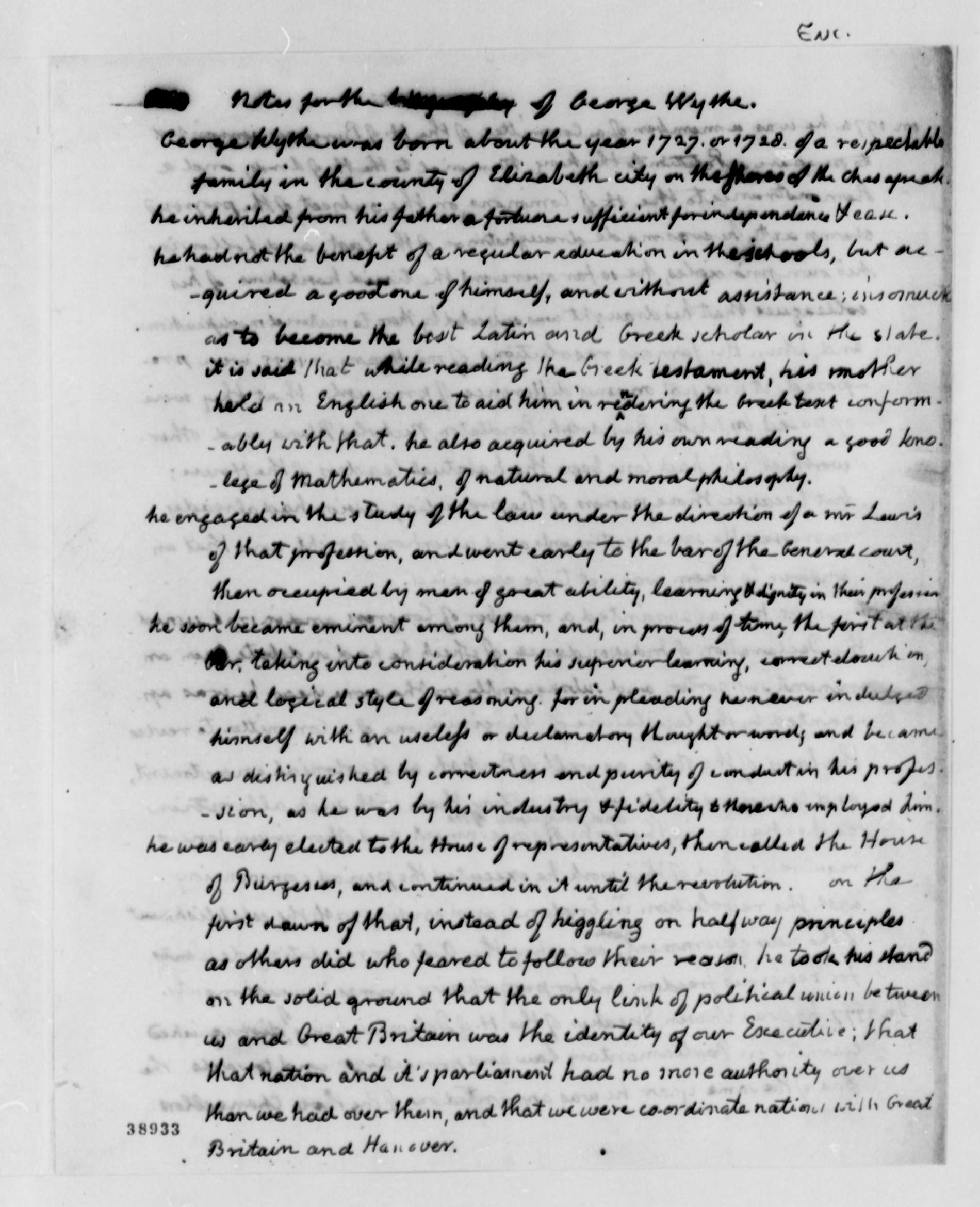 Thomas Jefferson's notes for a biography of George Wythe, Thomas Jefferson Papers, Series 1, General Correspondence, The Library of Congress, Washington, D. C.